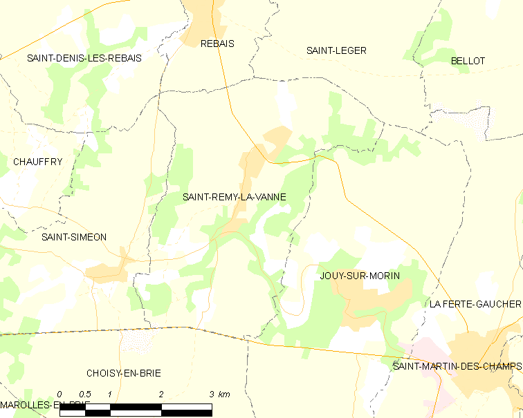 Map of French municipality Saint-Rémy-la-Vanne